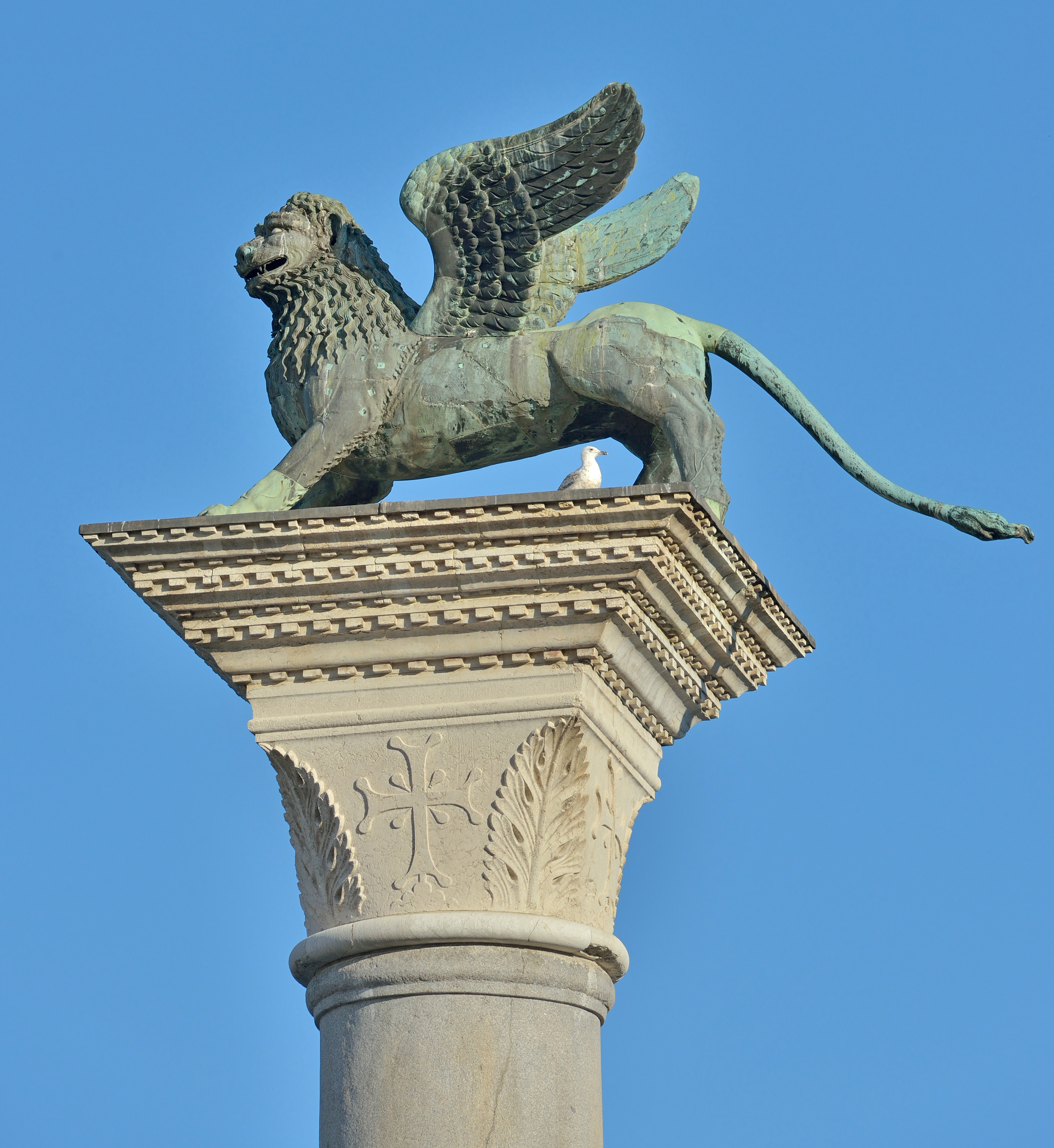 Bronze lion of Saint Marc on a column on Piazzetta San Marco in Venice